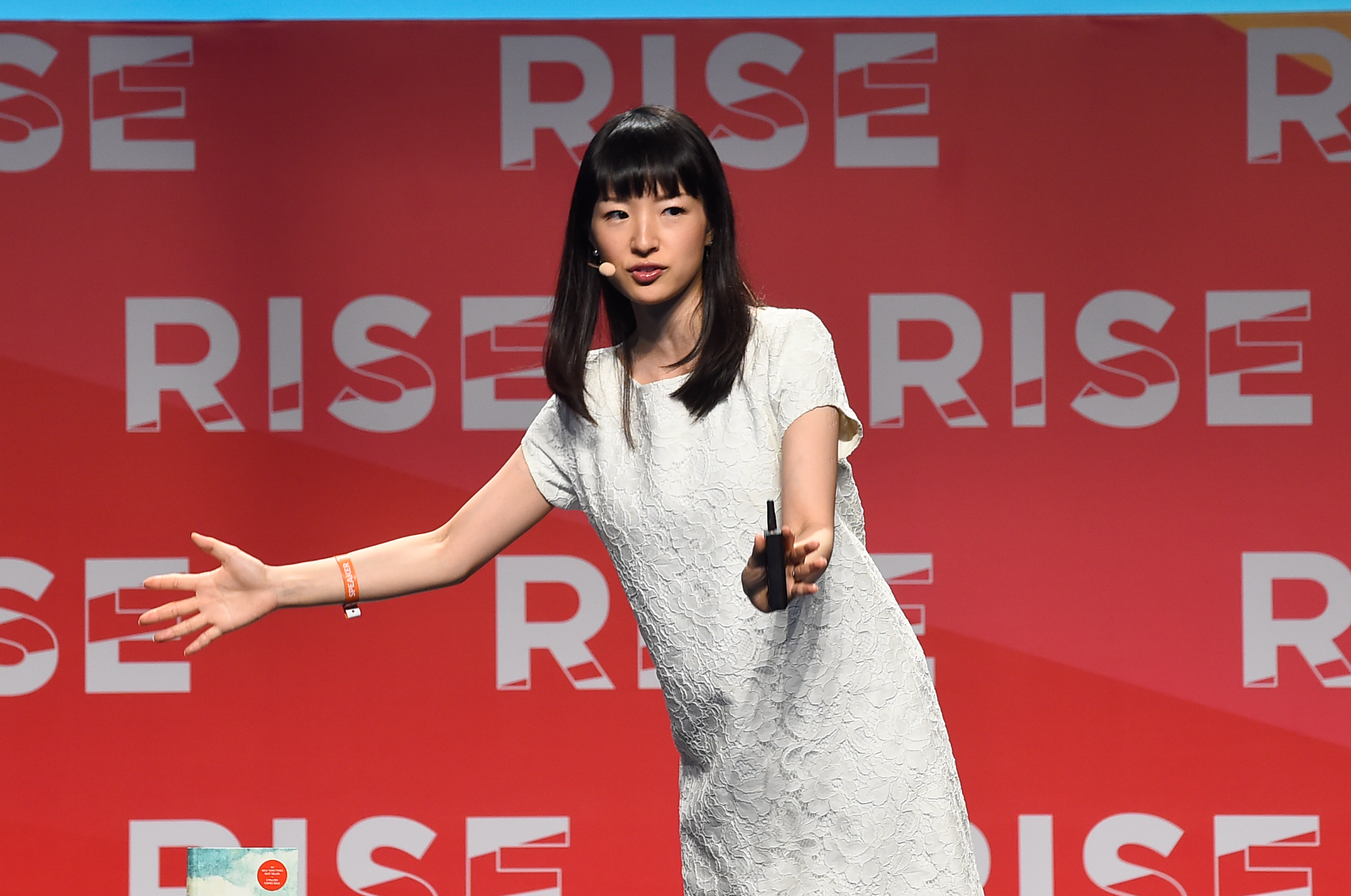 Marie Kondo, speaking at the 2016 RISE conference in Hong Kong.